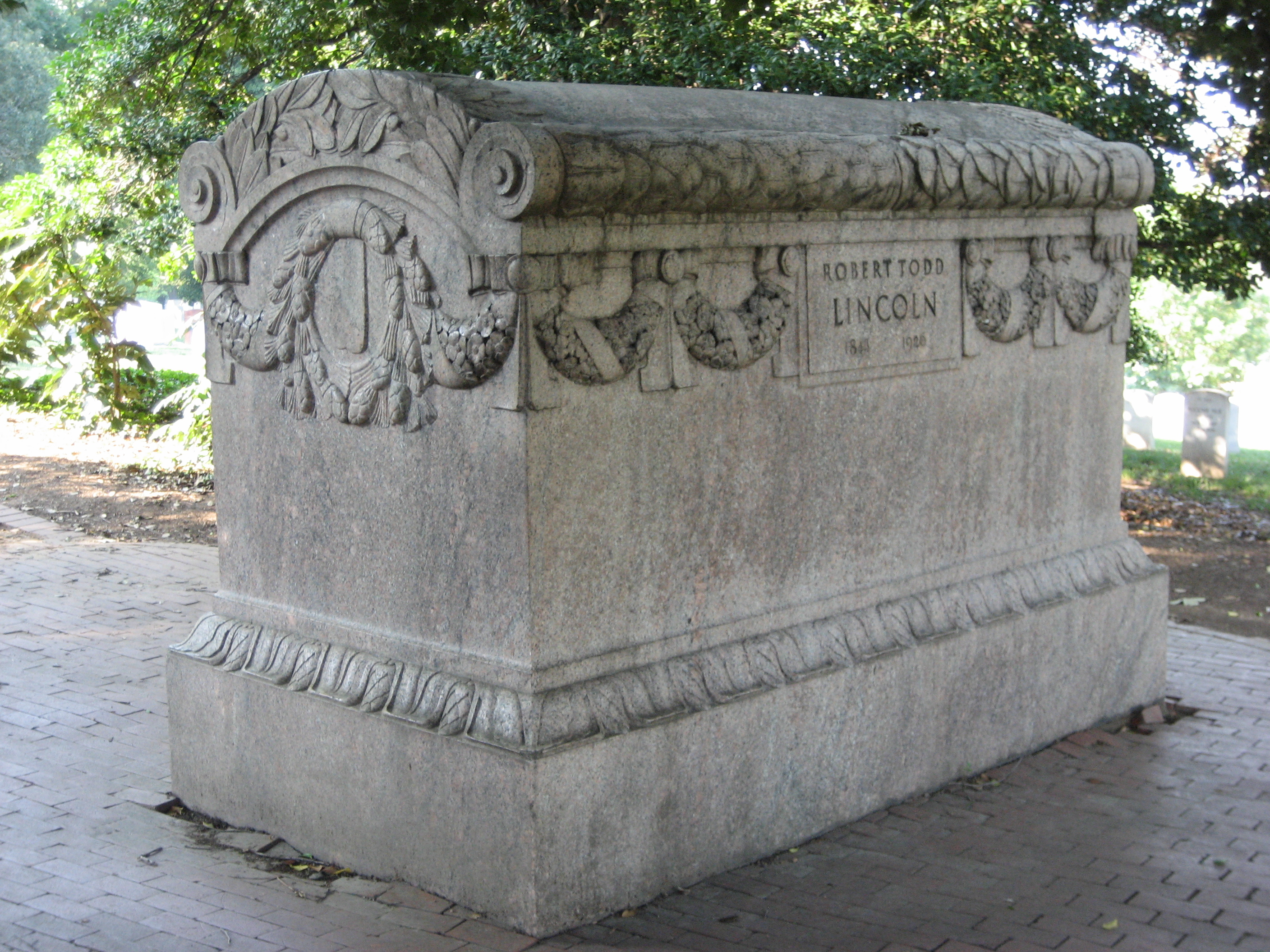 View of Robert Todd Lincoln's sarcophagus in Arlington National Cemetery, Arlington, Virginia, USA.